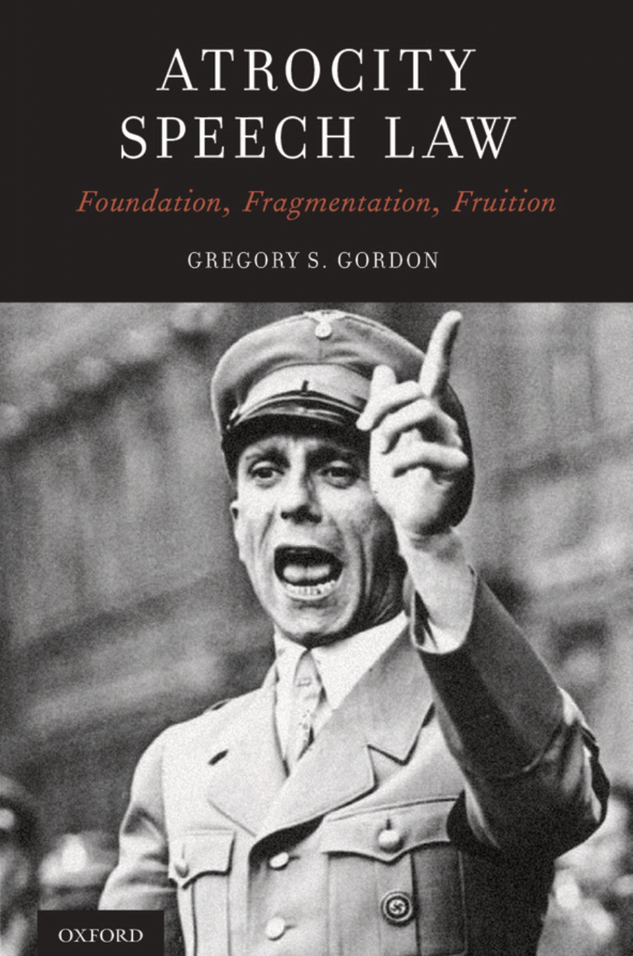 Book is by Gregory Gordon. Shows Joseph Goebbels.